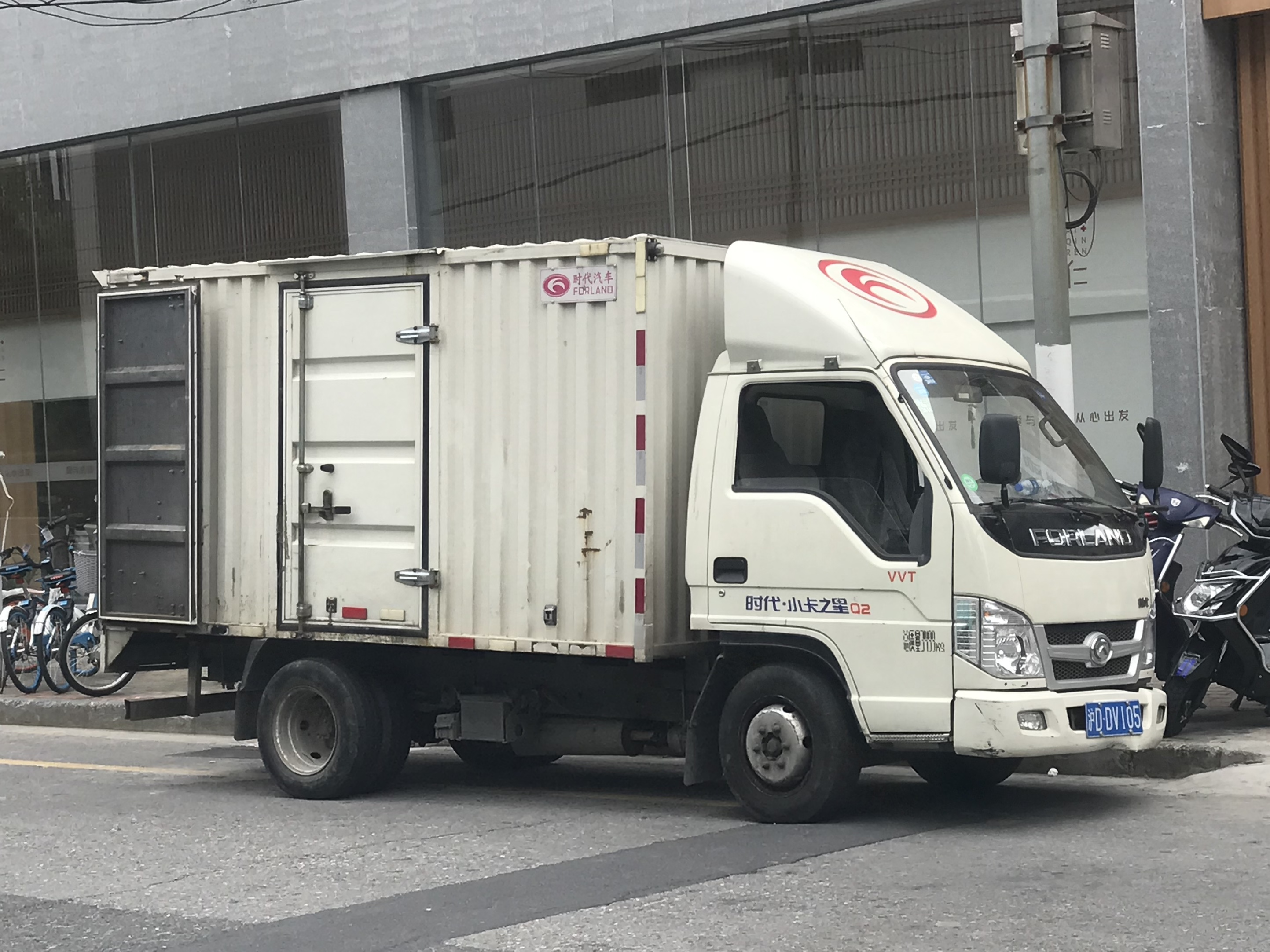 Foton Forland Q2